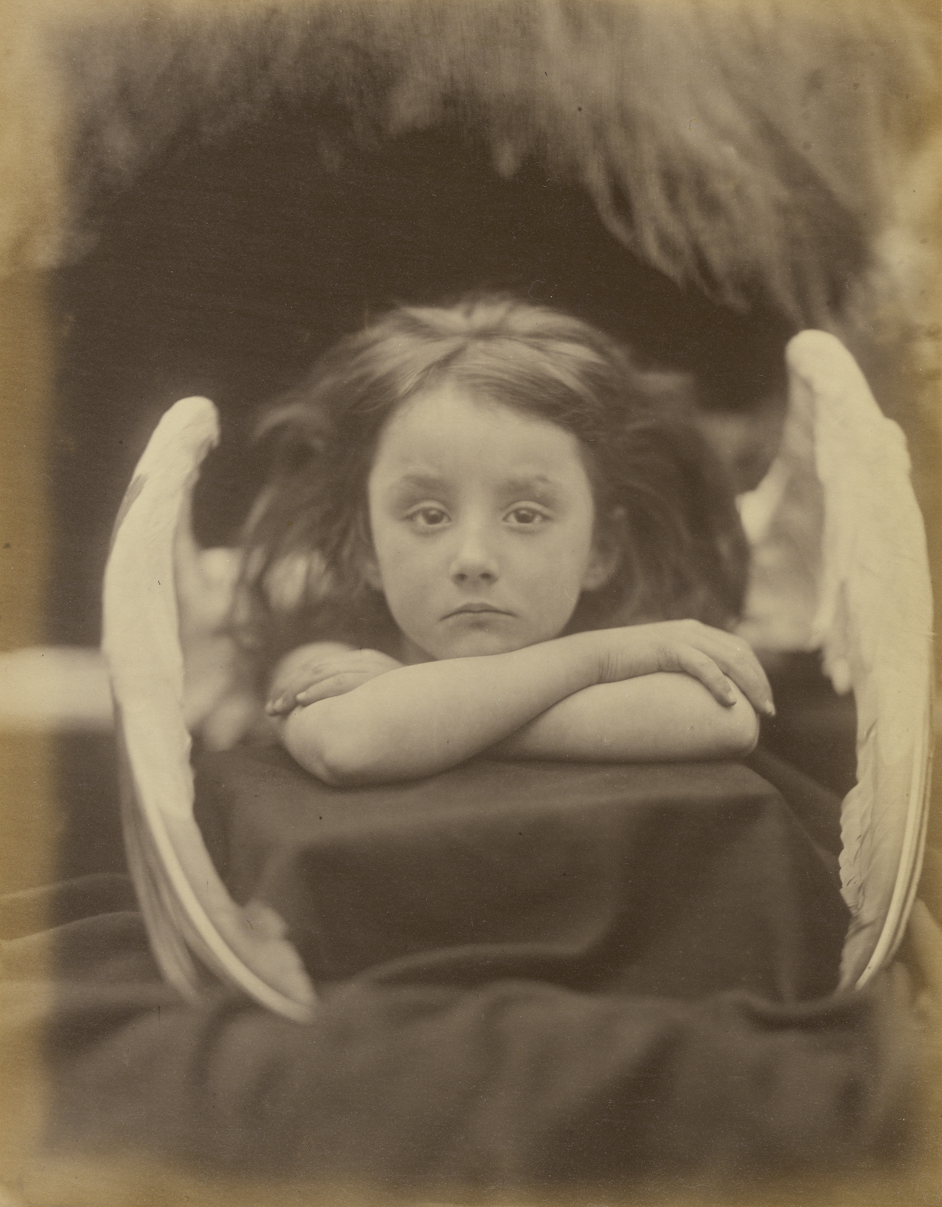 I Wait. Model is Rachel Gurney. Albumen print, 327 x 254mm (12 7/8 x 10").